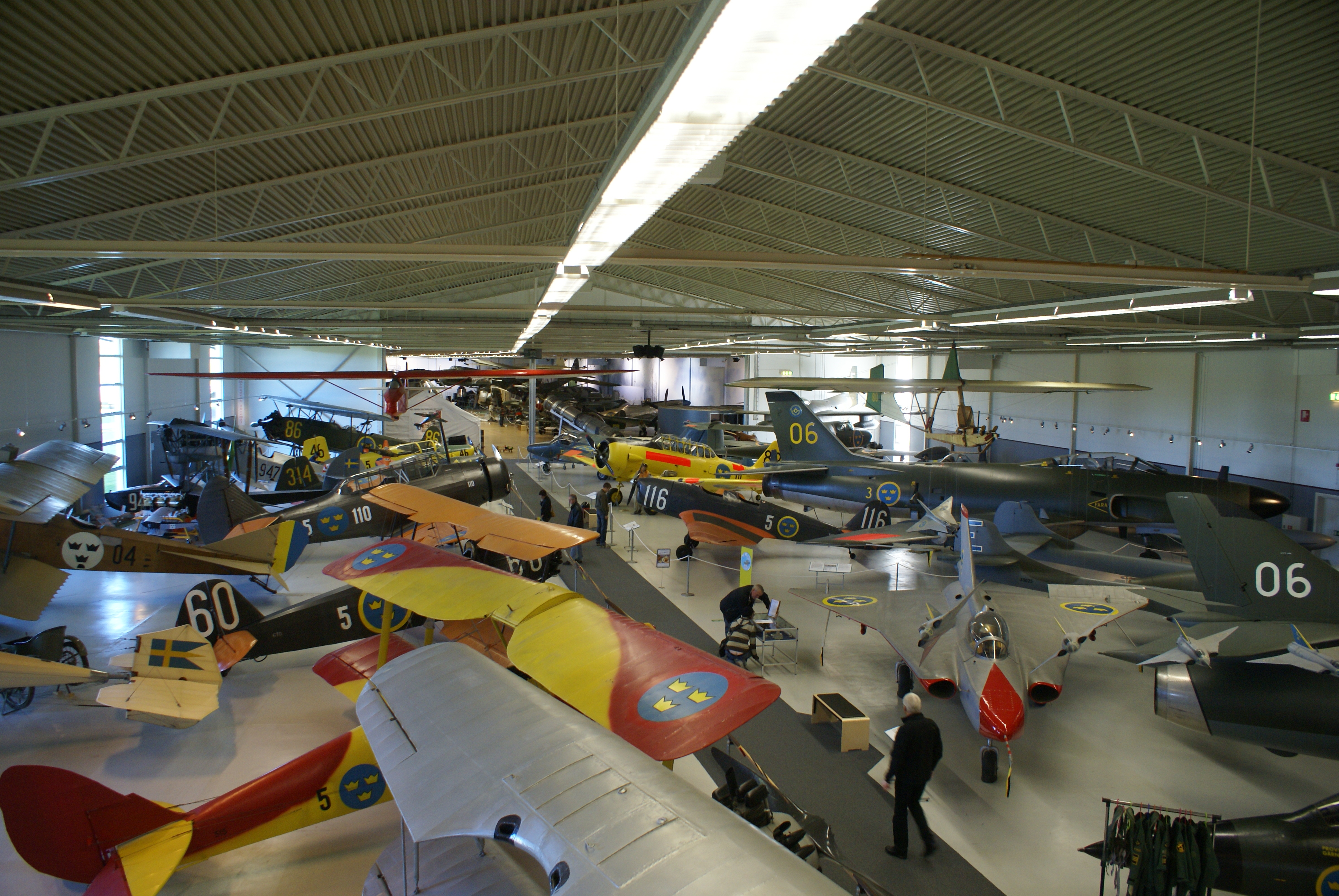 Picture of hall number 1 at Flygvapenmuseum, Linköping